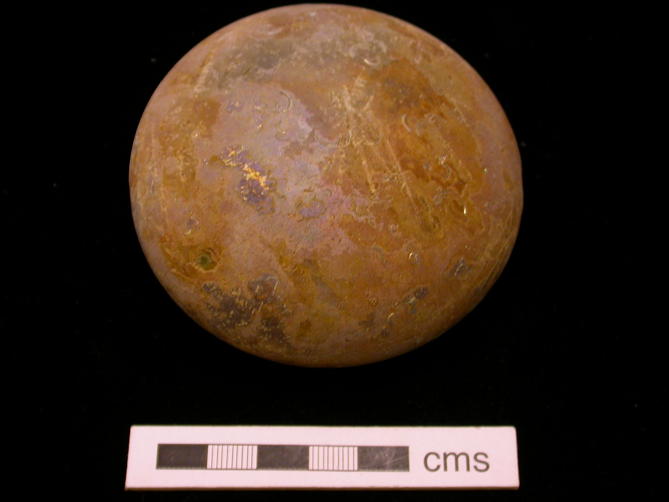 Circular glass linen smoother with lightly convex top and indented central stem on reverse (broken). The surface has an outer crust but the glass appears to have been dark in colour (blue-green or black). One large chip is missing from the surface.